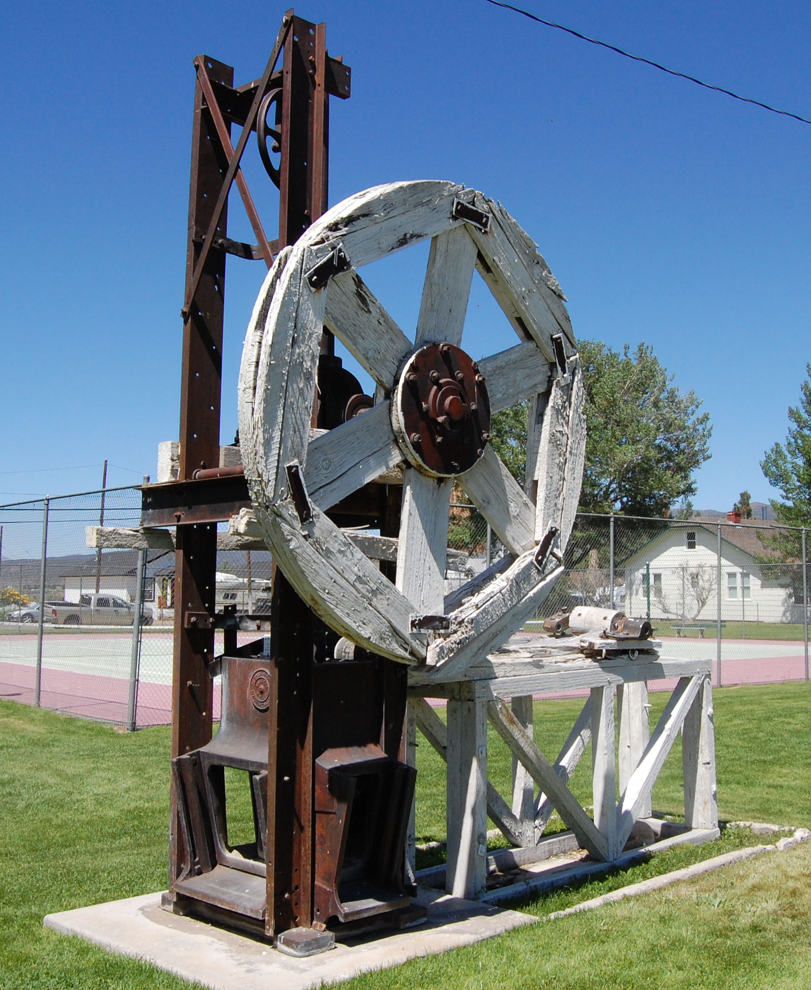 A two-stamp ore mill manufactured by Joshua Hendy Iron Works in the mid-1800s. It is currently located in Bridgeport Park in Bridgeport, California.